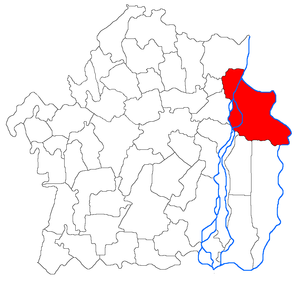 Limits of City of Braila in Braila County